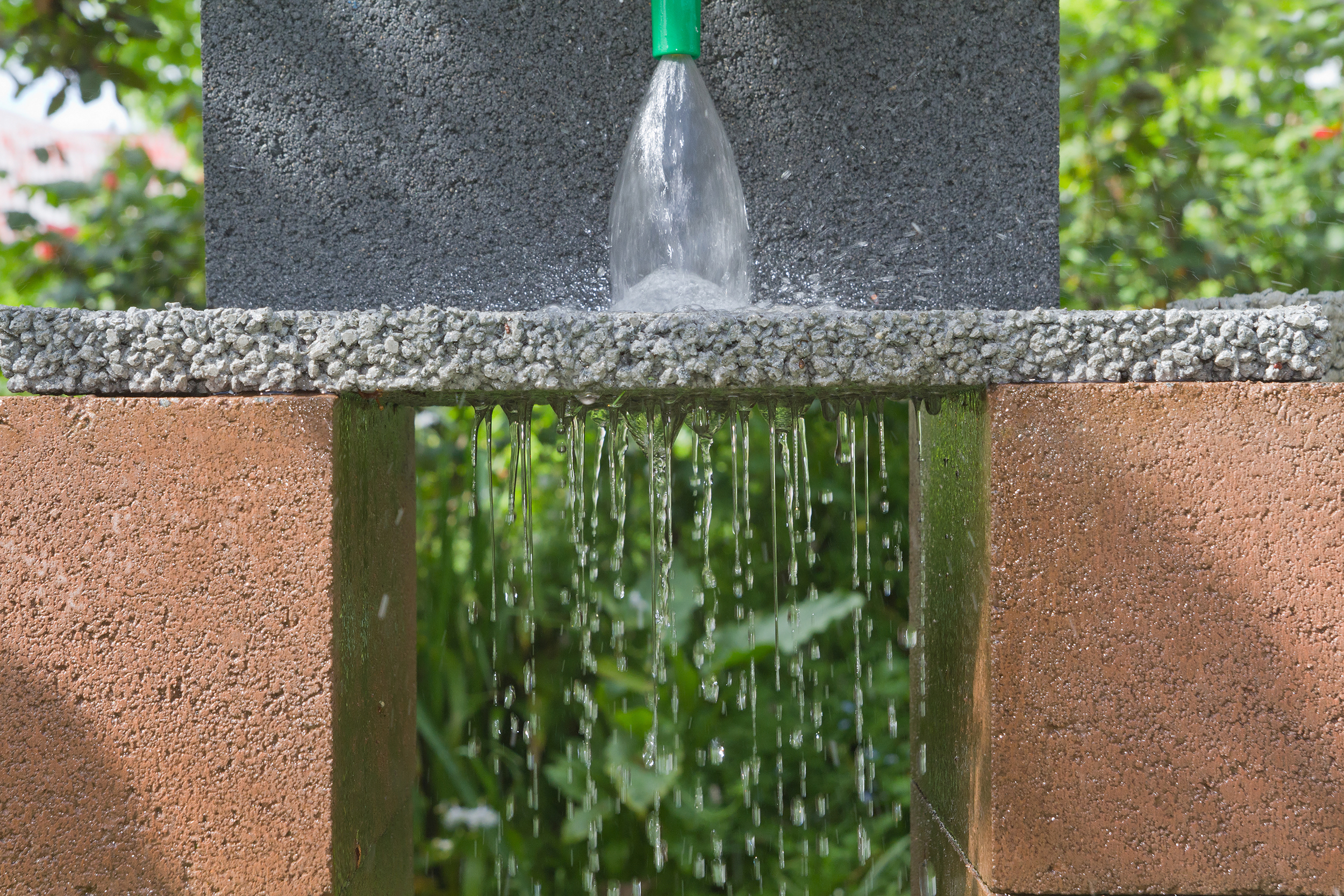 A permeable paver demonstration, Austin's Ferry, Tasmania, Australia